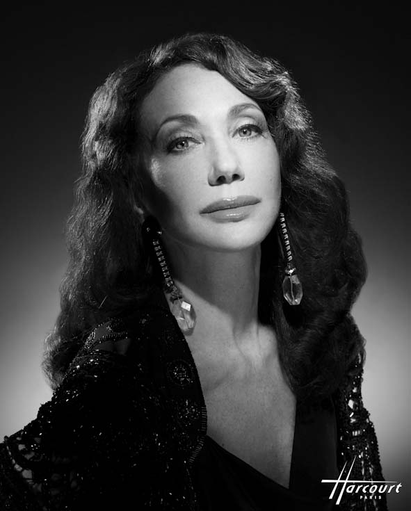 Marisa Berenson photographed by Studio Harcourt Paris